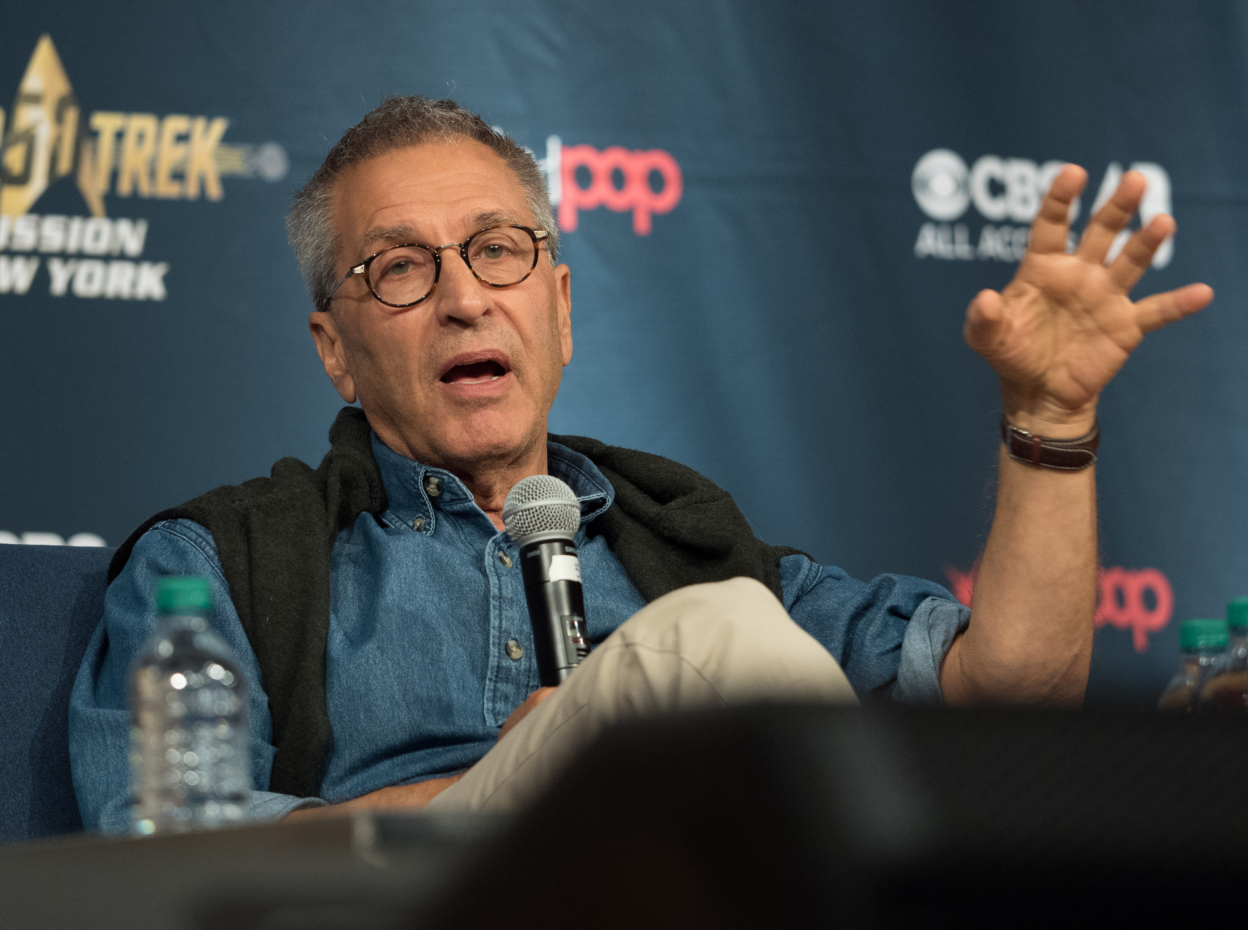 Nicholas Meyer at Star Trek Mission New York